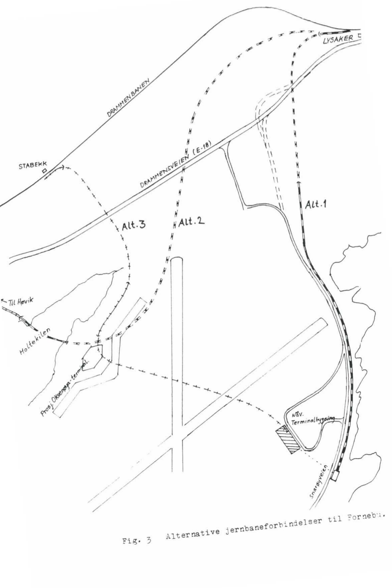 A 1986 with two proposals for a rail link to Oslo Airport, Fornebu: a branch mainline from the Drammen Line at Lysaker and people mover from Stabekk